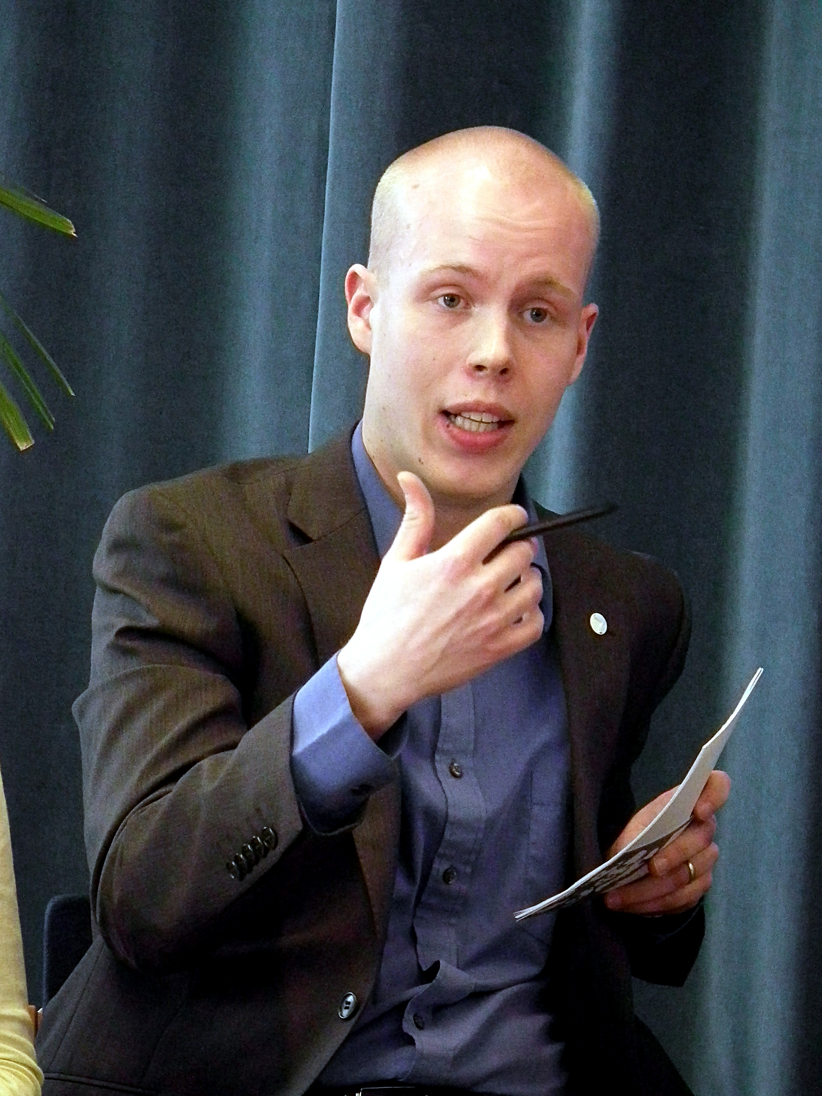 Finnish politician Timo Kontio